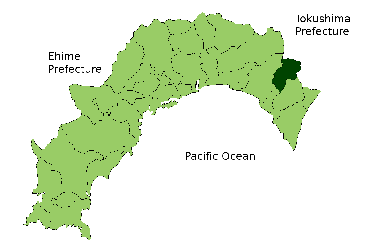 Map of Kochi Prefecture highlighting Umaji village. Borders of map as of October, 2006. (blank map used from [1]) See also Image:KochiMapCurrent.png